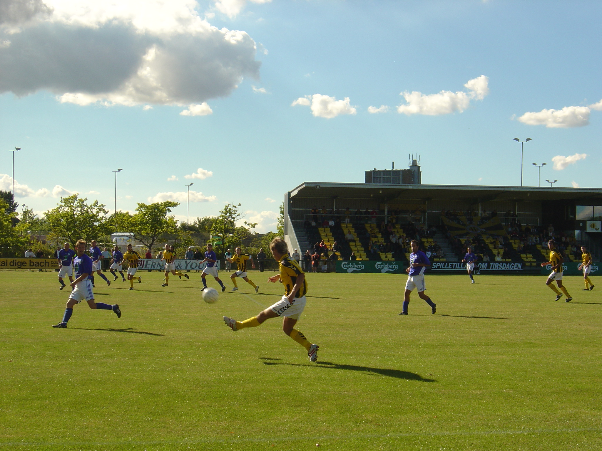 Brønshøj Boldklub against Boldklubben Fremad Amager - match action during a Danish 1st Division (level 2) match between Brønshøj Boldklub and Fremad Amager on 17 September 2005 at Tingbjerg Idrætspark.